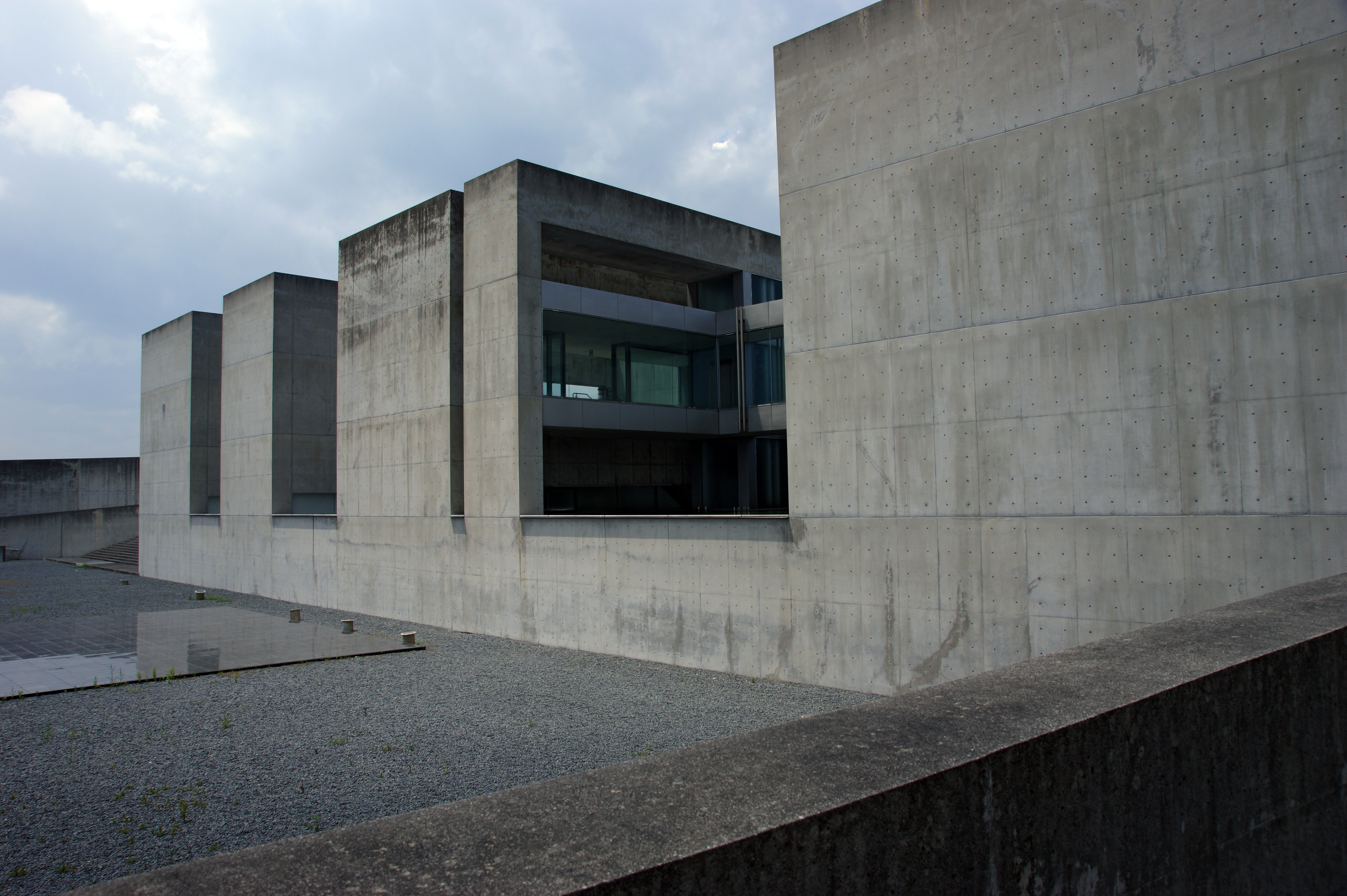 Shoji Ueda Museum of Photography in Hōki, Tottori prefecture, Japan